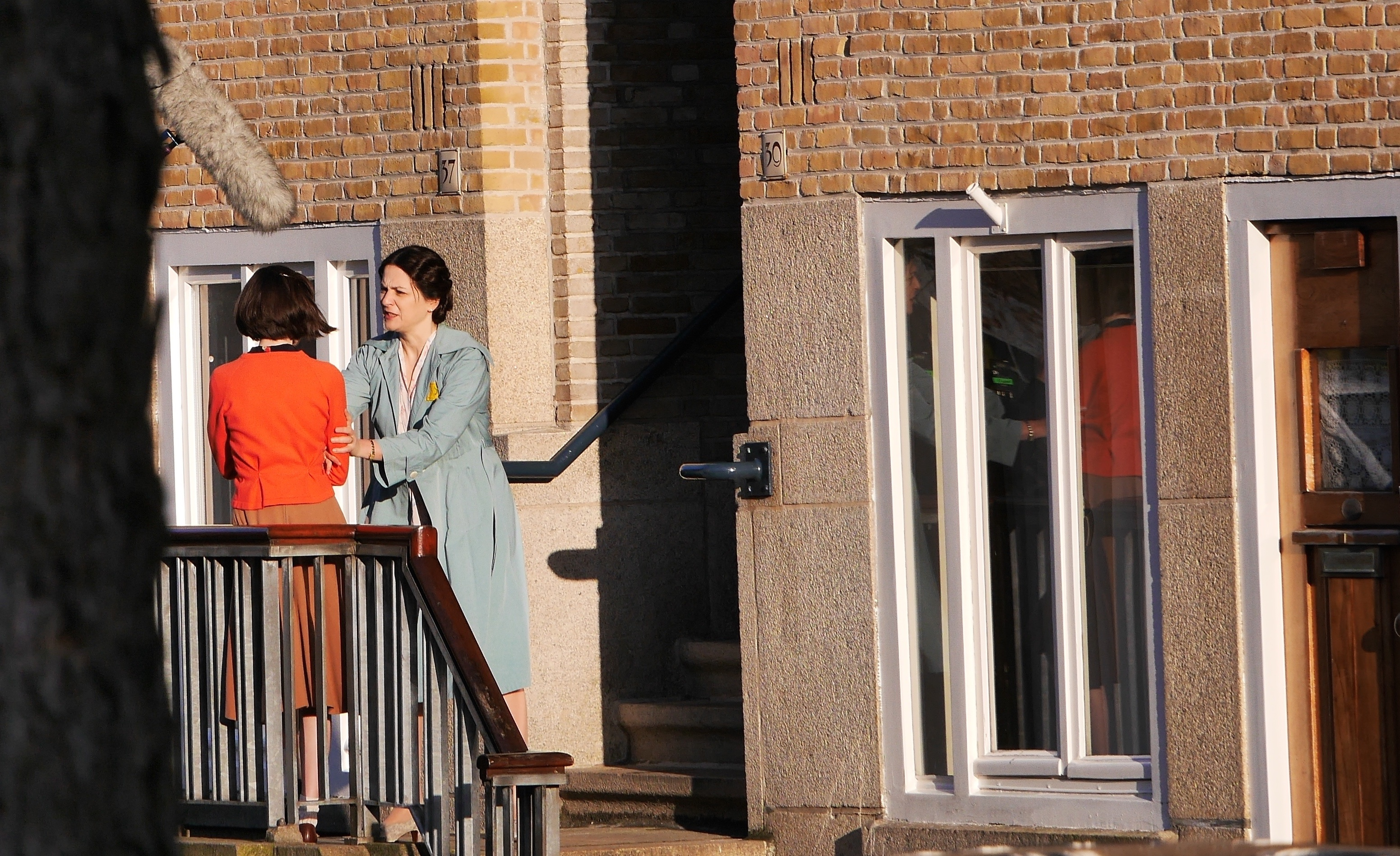 Shooting of Das Tagebuch der Anne Frank at Merweideplein (Amsterdam), scene with the German actresses Lea van Acken playing Anne Frank and Martina Gedeck playing Edith Frank